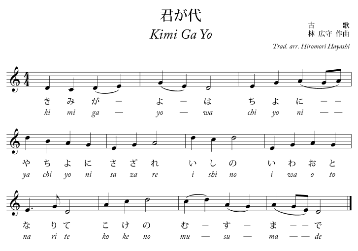 Words and music of the Japanese national anthem "Kimi Ga Yo"